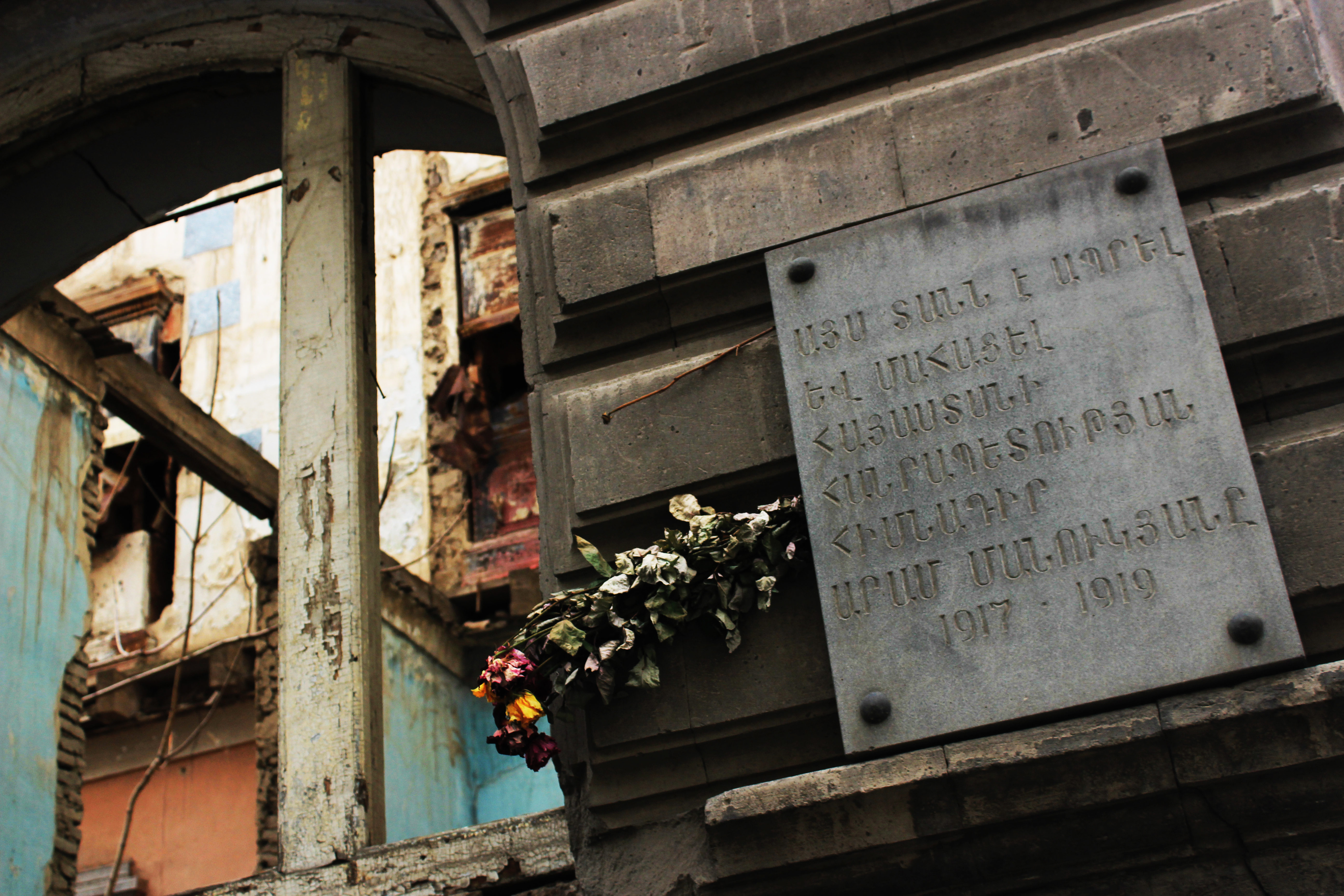 A commemorative plaque on its outside wall of the dilapidated building at 9 Aram Street in Yerevan states that Aram Manukian lived there from 1917 until his death in 1919. (Photo: Rupen Janbazian)